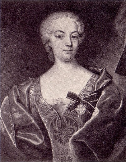 Charlotte Amalie Skeel (1700-1763), Danish noblewoman, decorated with l'union parfaite